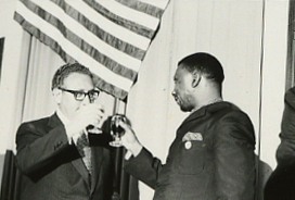 The photo contact sheet, identified as A9606 by the White House Photographic Office (WHPO), is housed at the Gerald R. Ford Presidential Library, a branch of the National Archives and Records Administration (NARA). This file is a 200 dpi photo contact sheet having images from roll of film A9606 of the August 9, 1974 - January 20, 1977 Gerald R. Ford White House Photographic Office Series A0001-A9999 and B0001-B2886 photographs. The date on the photo contact sheet is the date the roll of film was processed, not necessarily the date the photographs were taken. See table below for additional details.